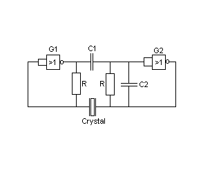 Crystal Oscillator